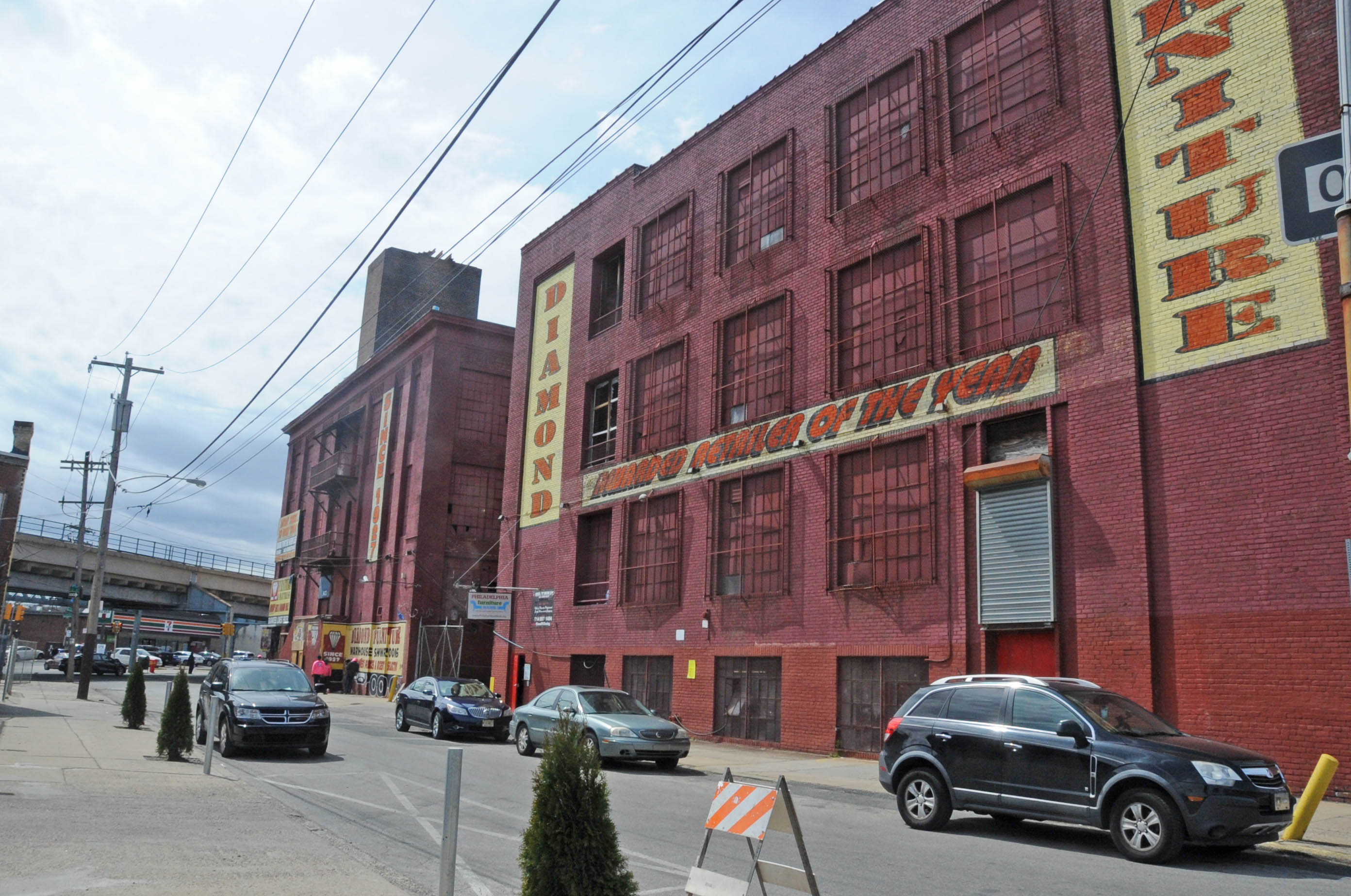 C1903; EXAMPLE OF A HOSIERY MILL THAT PRODUCED FULL-FASHION HOSIERY GARMENTS FROM 1909, WHEN THE WILLIAM BROWN COMPANY TOOK OVER THE SUBJECT BUILDING, TO 1935, WHEN THE WILLIAM BROWN COMPANY VACATED THE SITE AND CEASED PRODUCTION. THE BUILDING WAS VACANT FROM 1936 TO 1940. AFTER THAT IT BECAME A LAMP MANUFACTURING COMPANY UNTIL THE 1970’S WHEN A FURNITURE FACTORY TOOK OVER OWNERSHIP